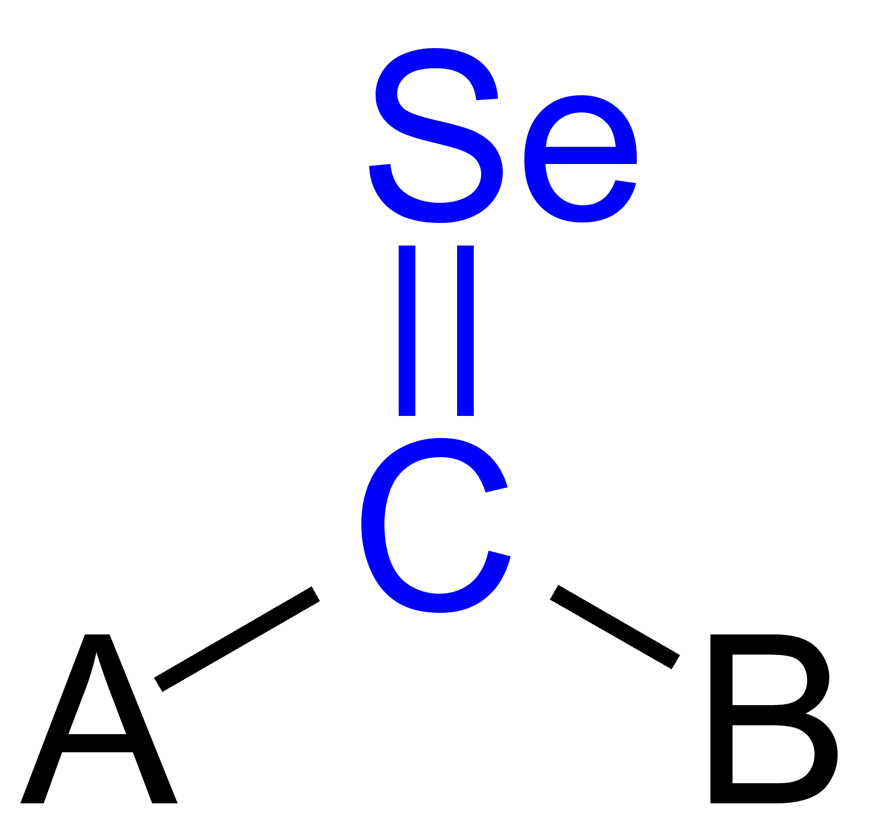 Selenocarbonyl_Group